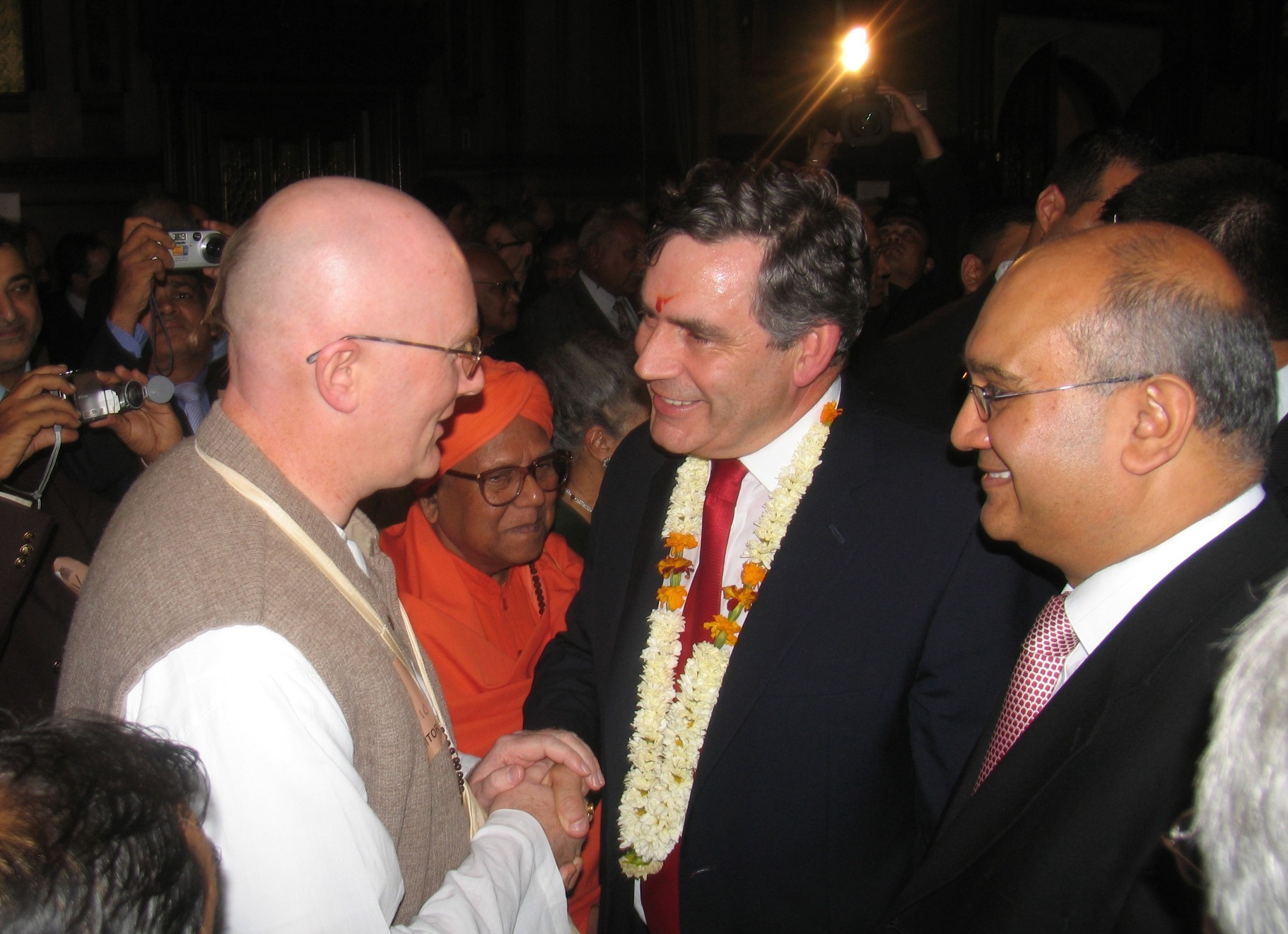 Gauridas, temple president of the Bhaktivednata Manor greeting Gordon Brown MP at the Diwali function at the House of Commons.